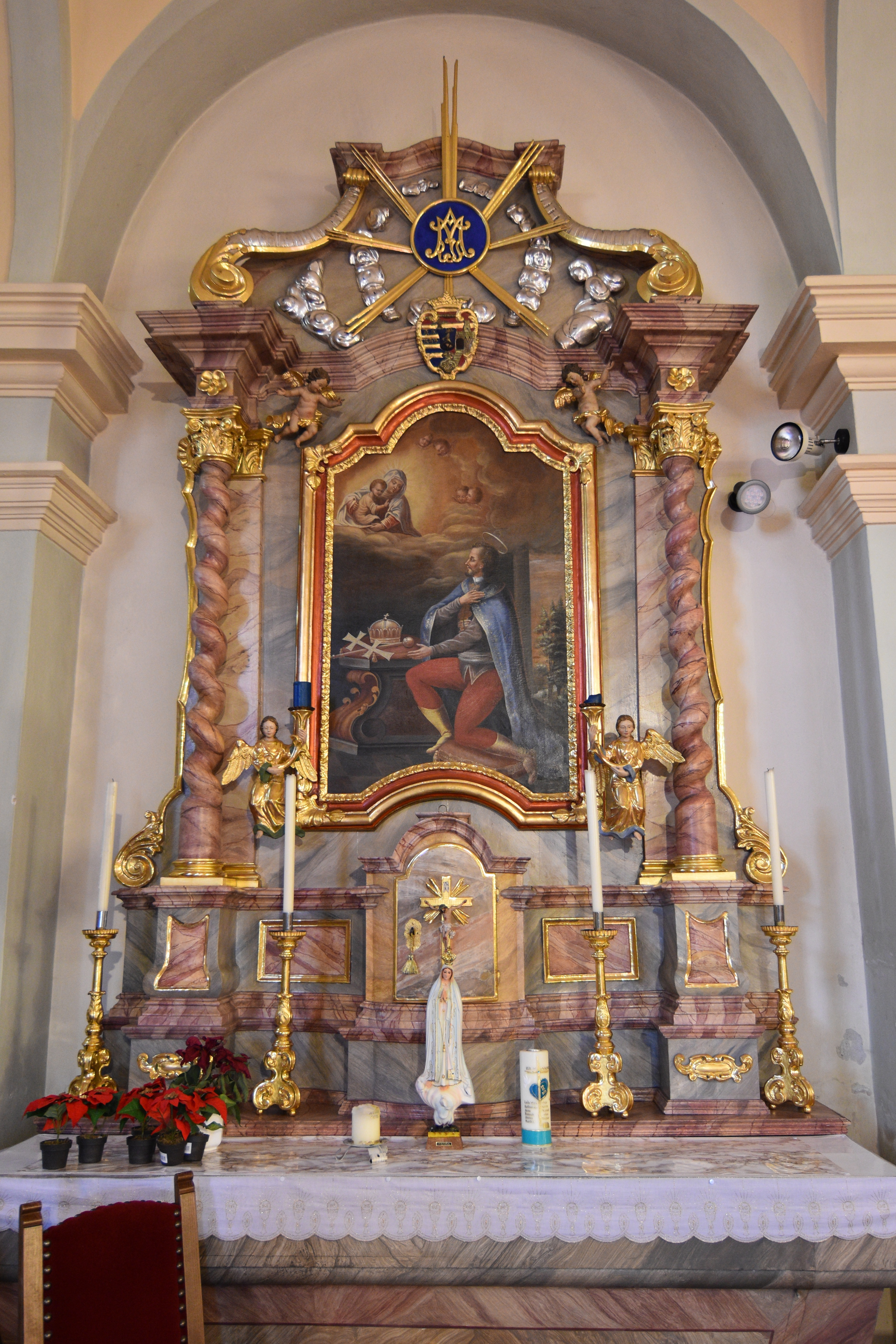 Church Oberdorf im Burgenland - Interior